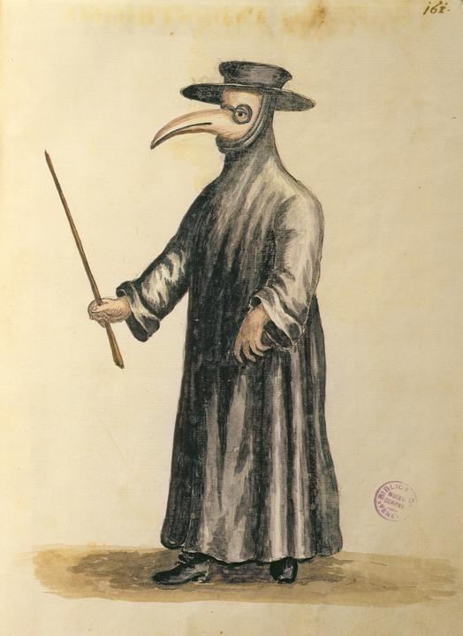 Jan van Grevenbroeck (1731-1807), Venetian doctor during the time of the plague. Pen, ink and watercolour on paper. Museo Correr, Venice.[1], [2] Alternatively: Grevenbroeck, Jan the Younger, Masked doctor during the plague in Venice. From the Grevenbroeck manuscript; 17th century. Museo Correr, Venice, Italy. [3] The confusion should be clearable by the museum, but unfortunately the work seems not yet to be present in this online catalogue.